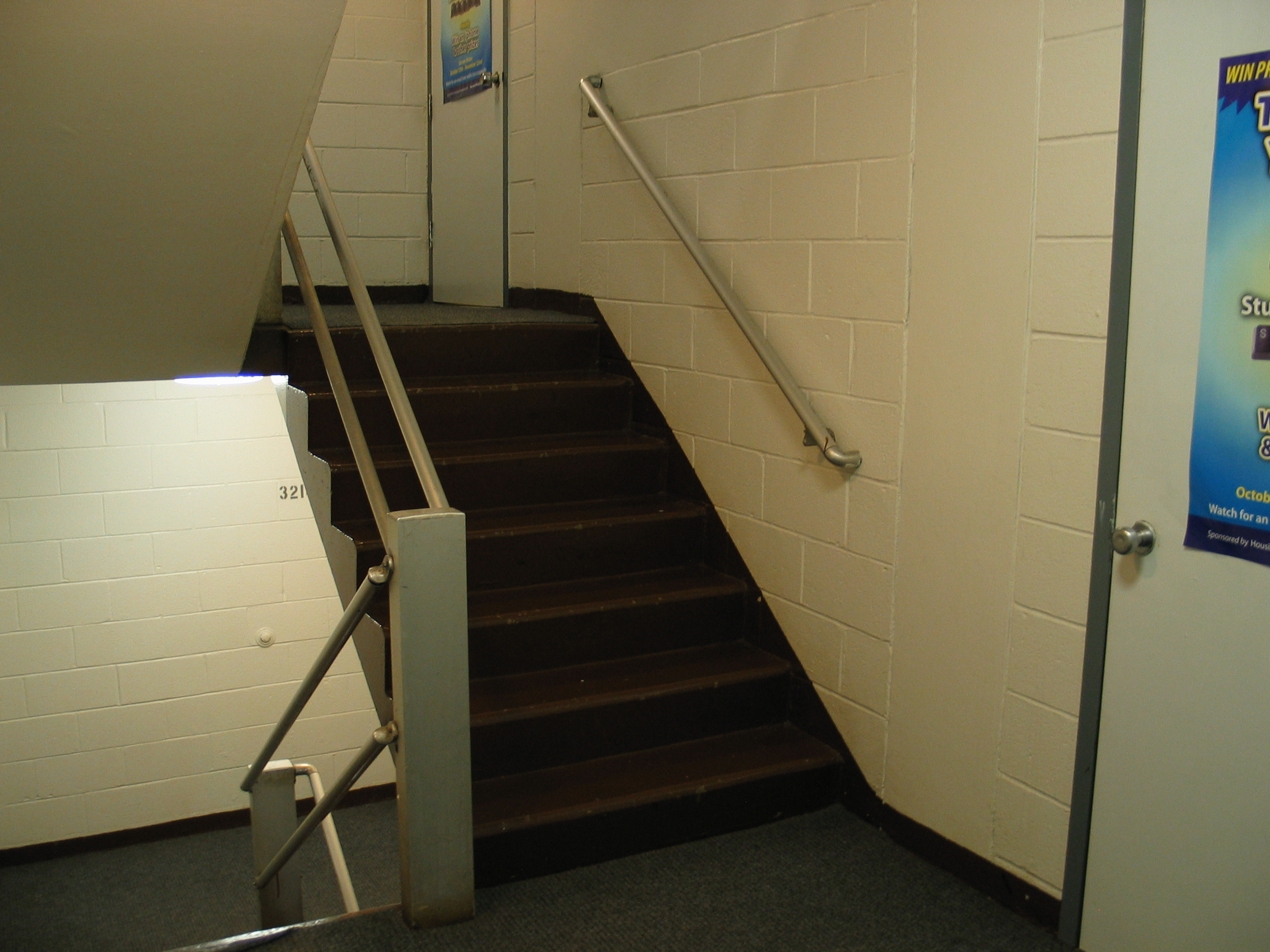 A split-level dormitory